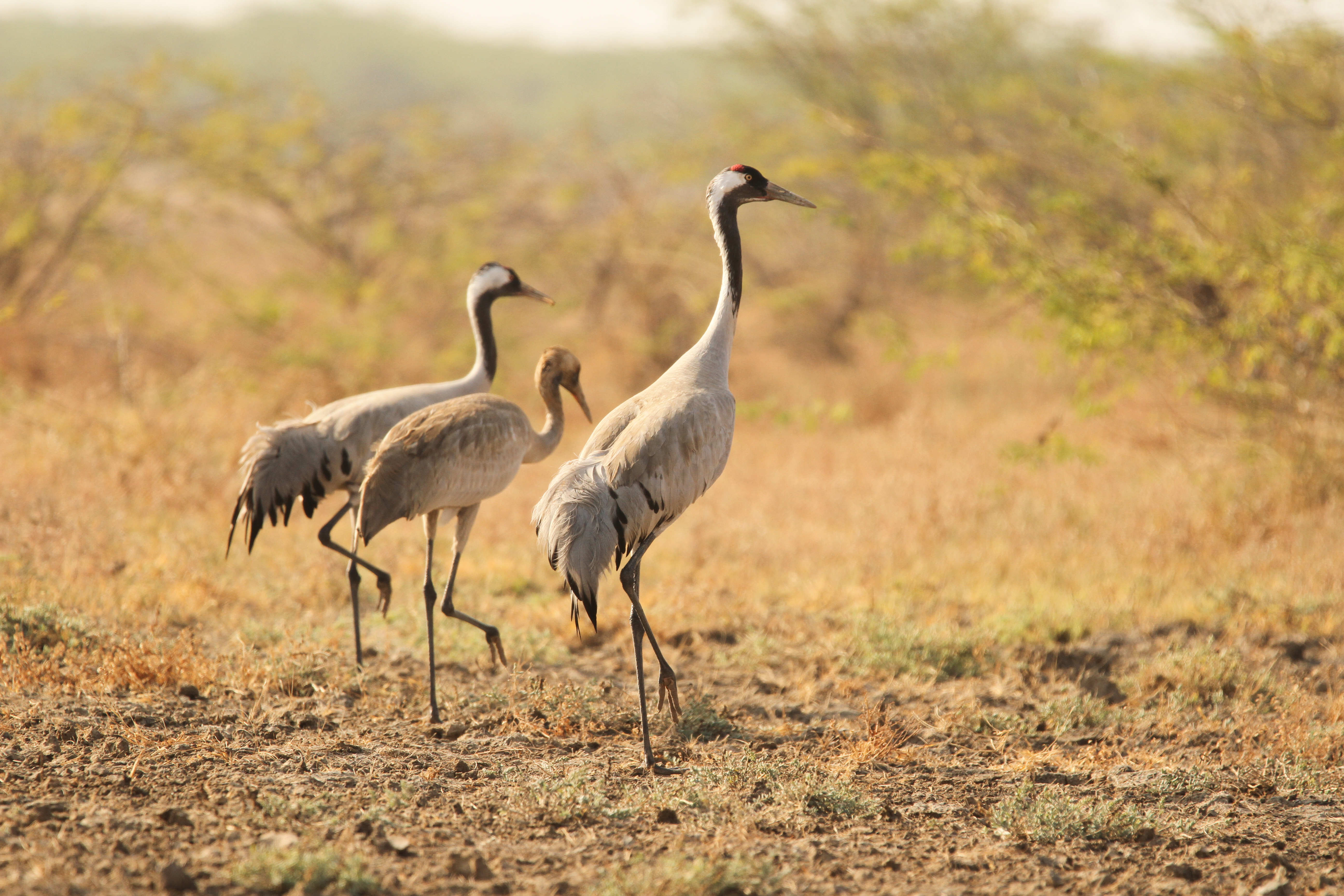 Birds of India